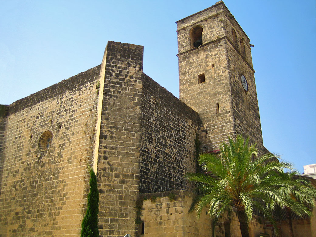 Xàbia church, Xàbia, county Marina Alta, Region of Valencia, Spain